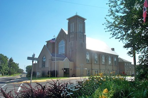 Church